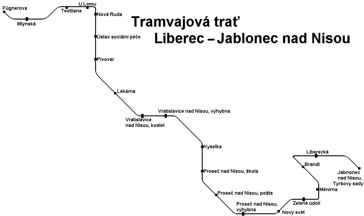 Tram track Liberec - Jablonec in Czech Republic, map